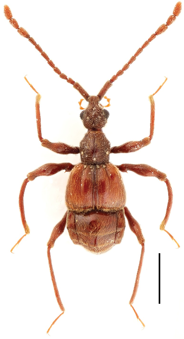 Male habitus of Pselaphodes anhuianus. Scale: 1.0 mm.